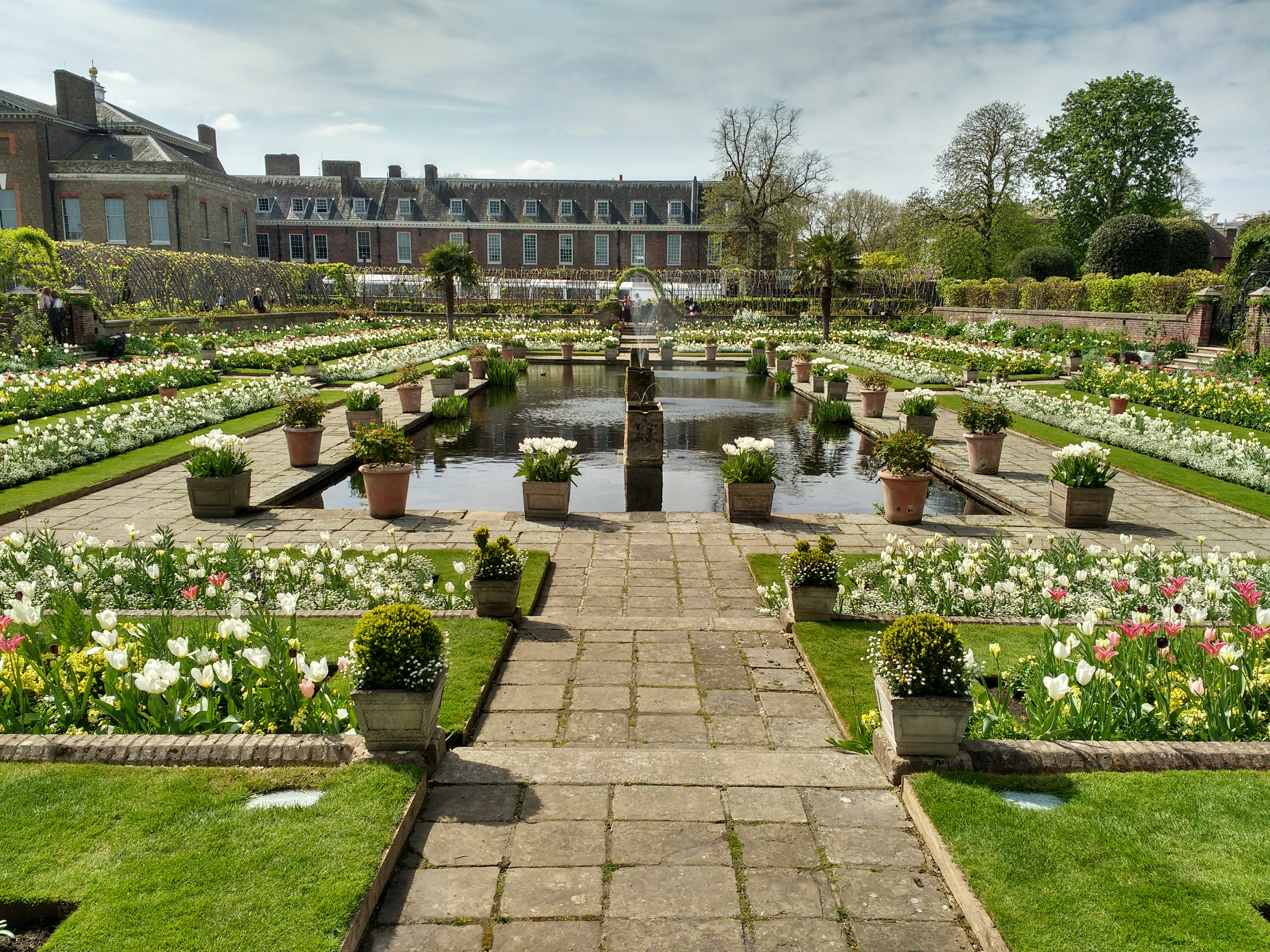 The White Garden, Kensington Palace. To mark the 20th anniversary of the death of Diana, Princess of Wales.